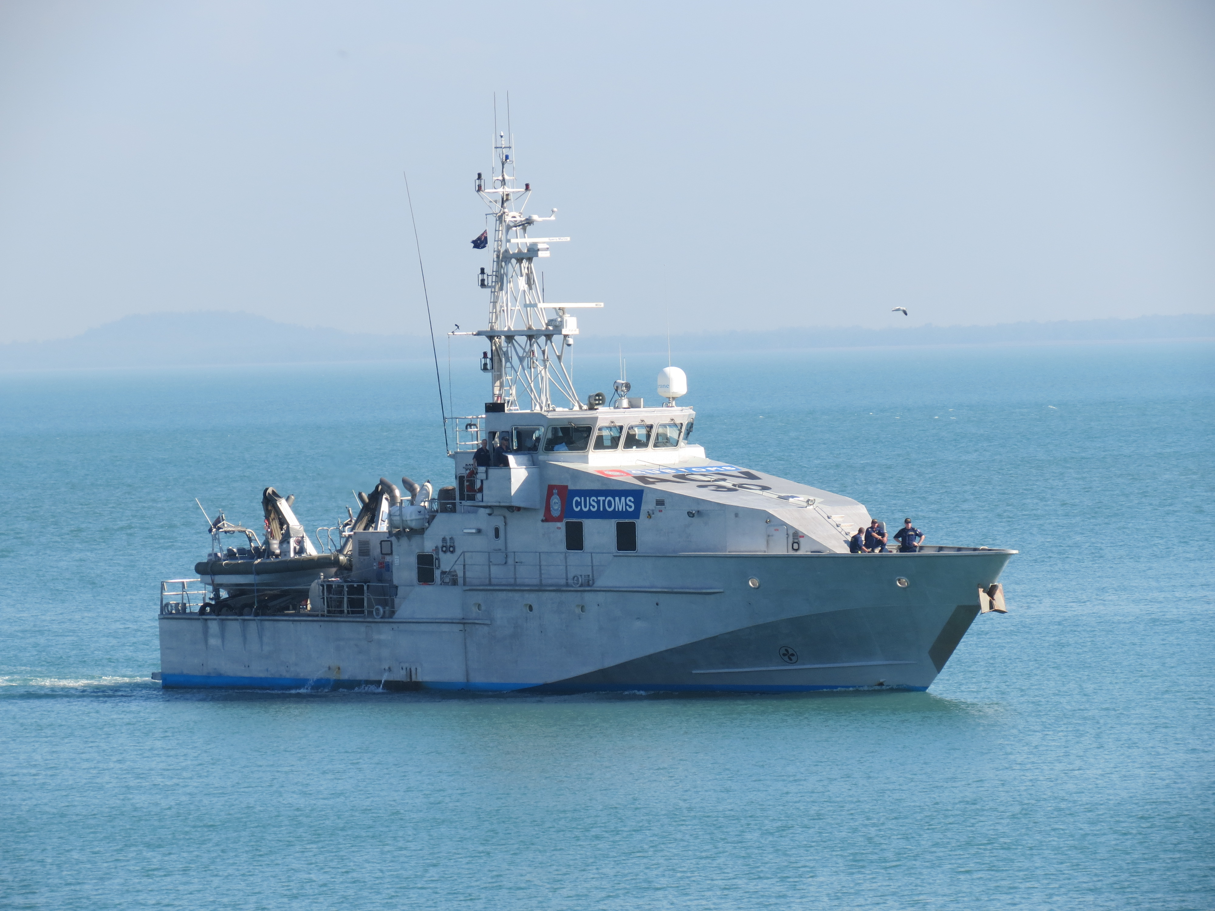 Bay Class patrol boat ACV30 Botany Bay returns from patrol to Stokes Hill Wharf in Darwin. Operated by the Customs Marine Unit of the Australian Customs Service the Botany Bay is one of eight Bay Class patrol boats and is currently based in Darwin.